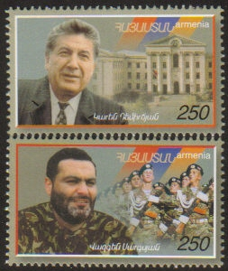 Stamp of Armenia